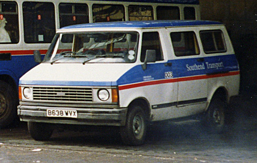 Southend Corporation Transport liveried 1985 Bedford CF2 2.3 diesel (1984-1988) License on Flickr: CC-BY-SA-2.0 Flickr tags: Southend Corporation Transport cropped by uploader Mr.choppers